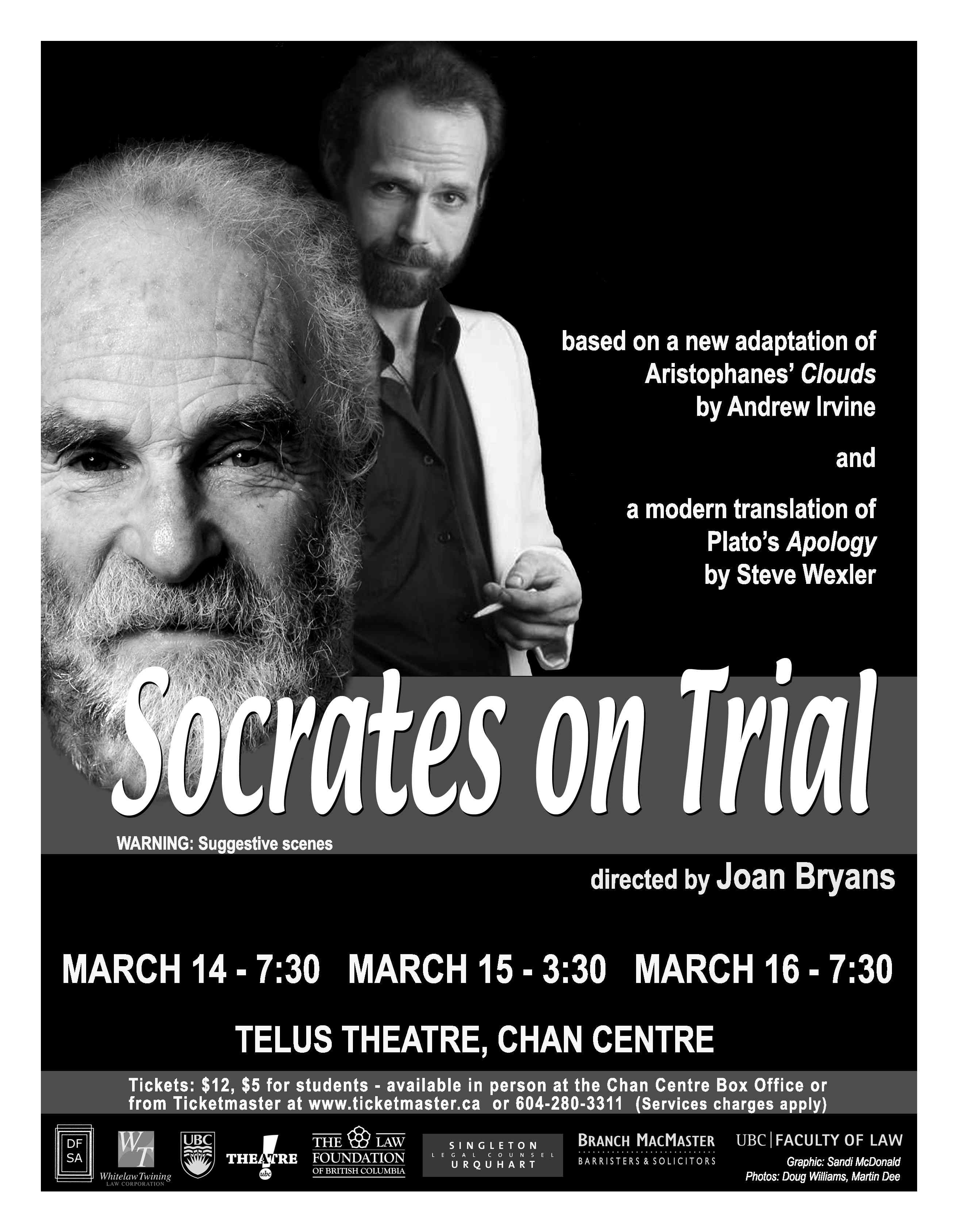 2007 Socrates on Trial Playbill